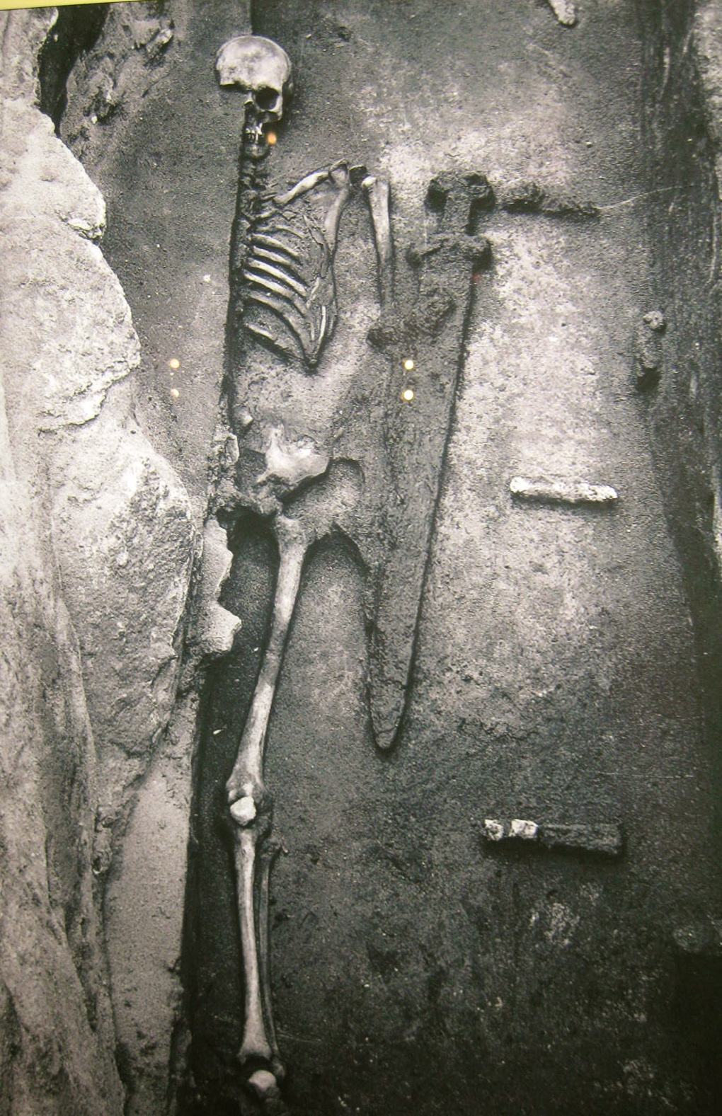 Mikulčice. Burial in Church 2 on display. Skeleton with iron sword of Avar type